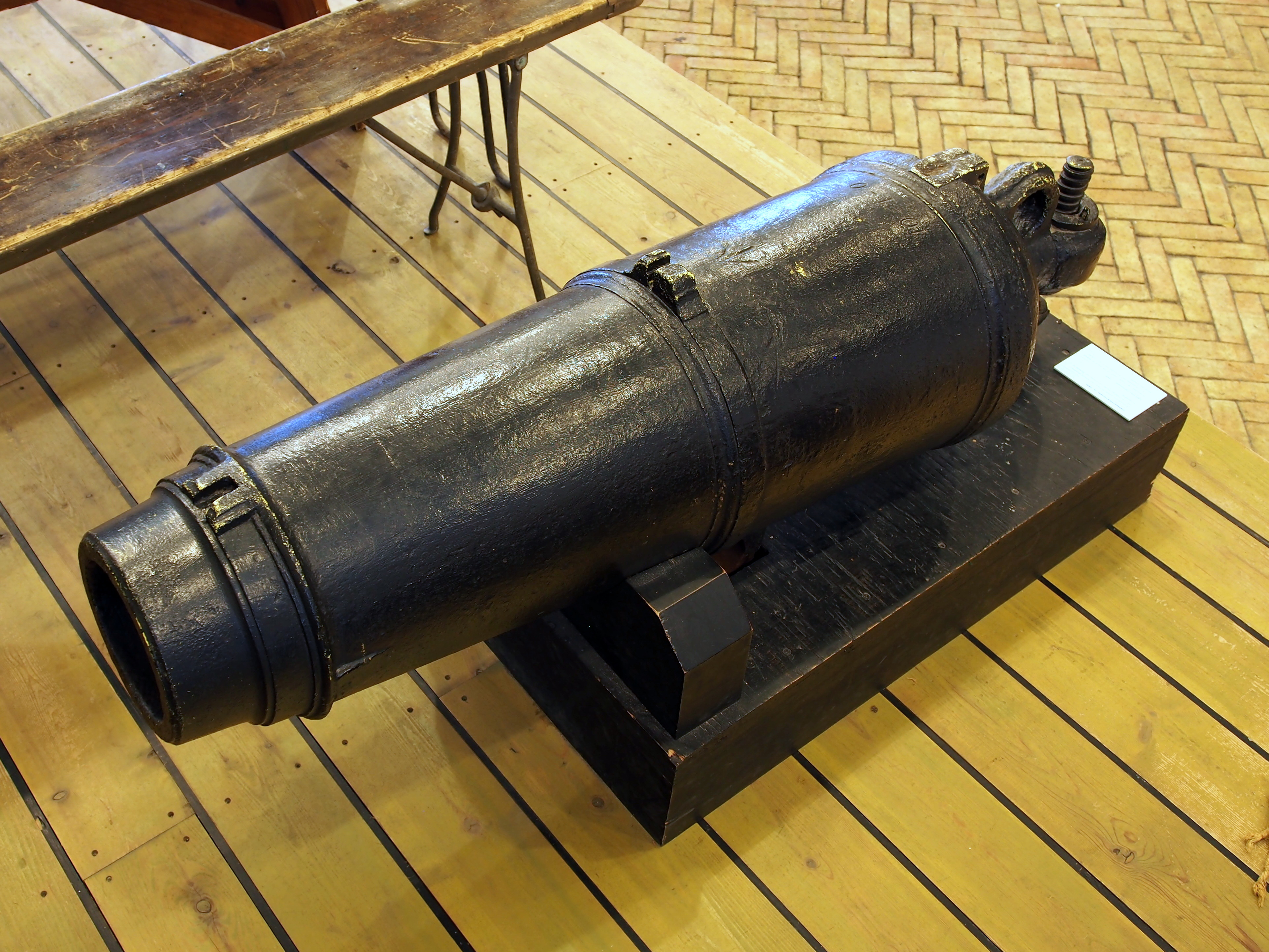 Photographed at the Royal Danish Naval Museum Copenhagen, Denmark.